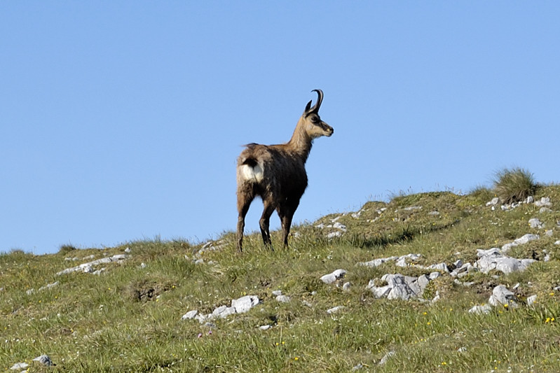 Chamois near Klosterwappen